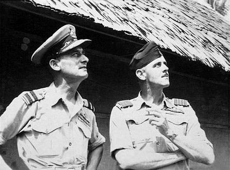 AWM caption: Morotai Island, Halmahera Islands, Netherlands East Indies. 1945-01-08. Two of the most colourful personalities in the RAAF are now serving together. Air Commodore A. H. Cobby OBE DSO DFC and 2 BARS GM of Brighton, VIC (left), who is now Air Officer Commanding, First Tactical Air Force RAAF, and with a "bag" of 29 enemy aircraft and a number of balloons was top scorer of the Australian Flying Corps in World War 1, now has as his fighter chief 398 Group Captain Clive R. (Killer) Caldwell DSO DFC and BAR, Polish Cross of Valour, of Illabo, NSW, who is credited with destruction of 27 1/2 German, Italian and Japanese aircraft.